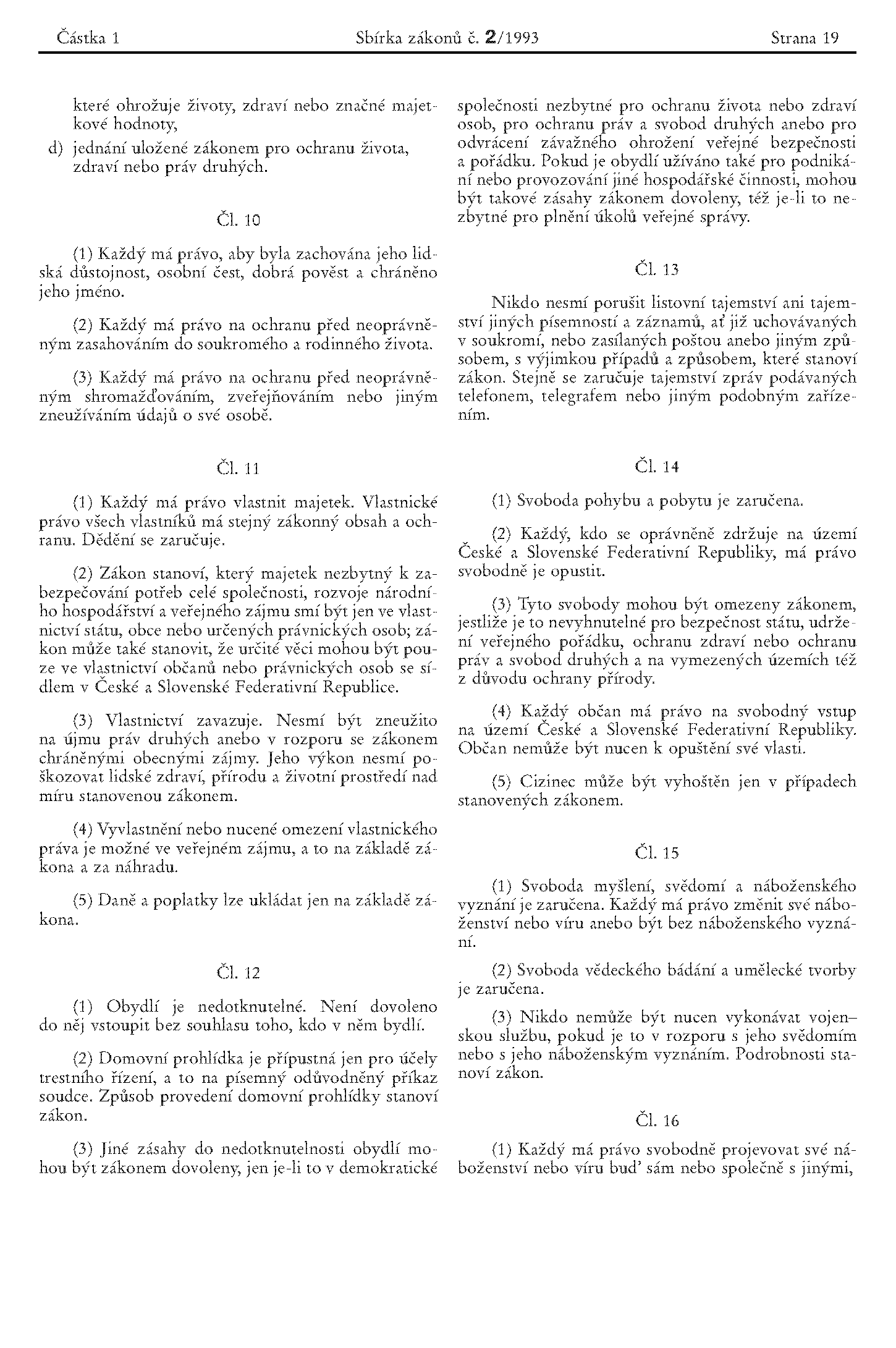 Czech Collection of Laws' official issue with the 1993 Constitution No. 1/1993 Coll. Česky: Stejnopis Sbírky zákonů s Ústavou České republiky (1/1993 Sb.) a Listinou základních práv a svobod (2/1993 Sb.)